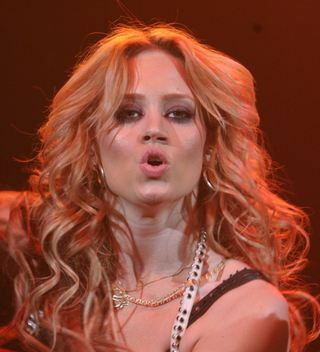 Kimberly Wyatt at the Tacoma Dome in Washington.